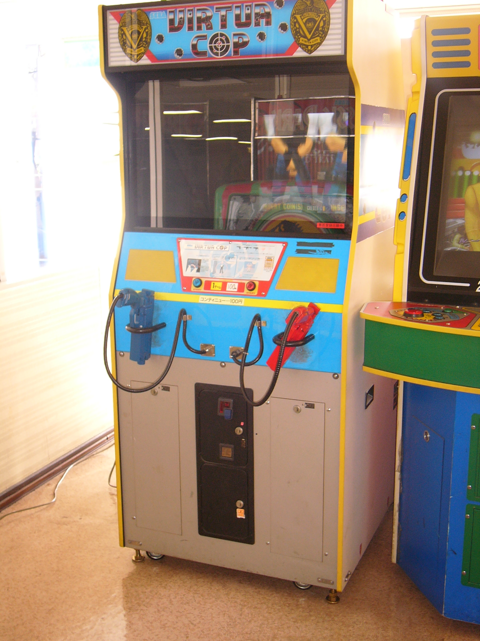 Virtua Cop